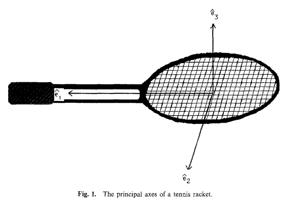 Illustration included in Mark S. Ashbaugh, Carmen C. Chicone and Richard H. Cushman (1991). "The Twisting Tennis Racket". Journal of Dynamics and Differential Equations. Article describes the Tennis racket theorem